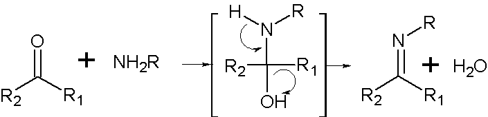 Imine from ketone and primary ammine